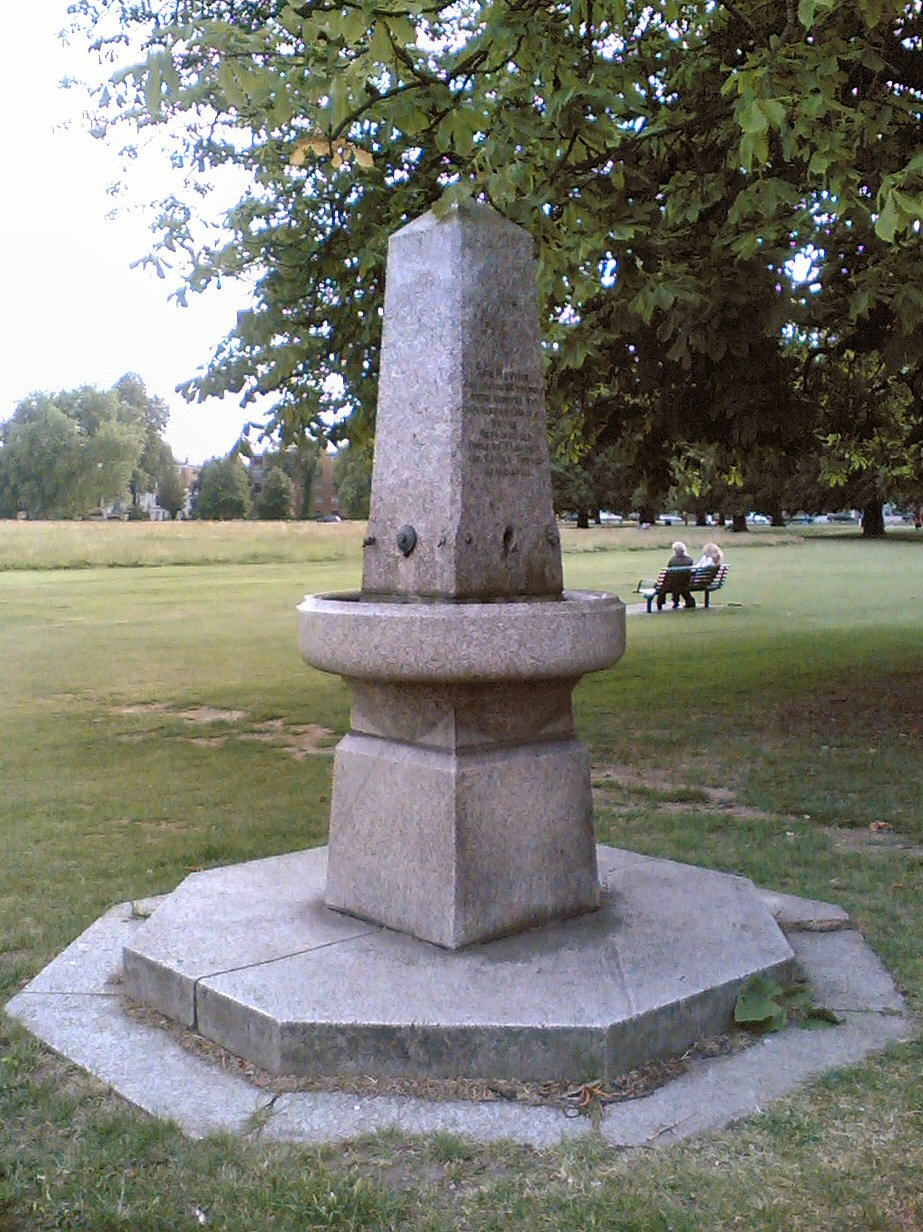 Drinking fountain on Ealing Common, London, UK. The inscription on the side reads "This fountain and adjoining troughs were erected by local subscription in 1878 by the Metropolitan Drinking Fountain and Cattle Trough Association." When photographed in 2006 the troughs were no longer there, and the fountain was not working.